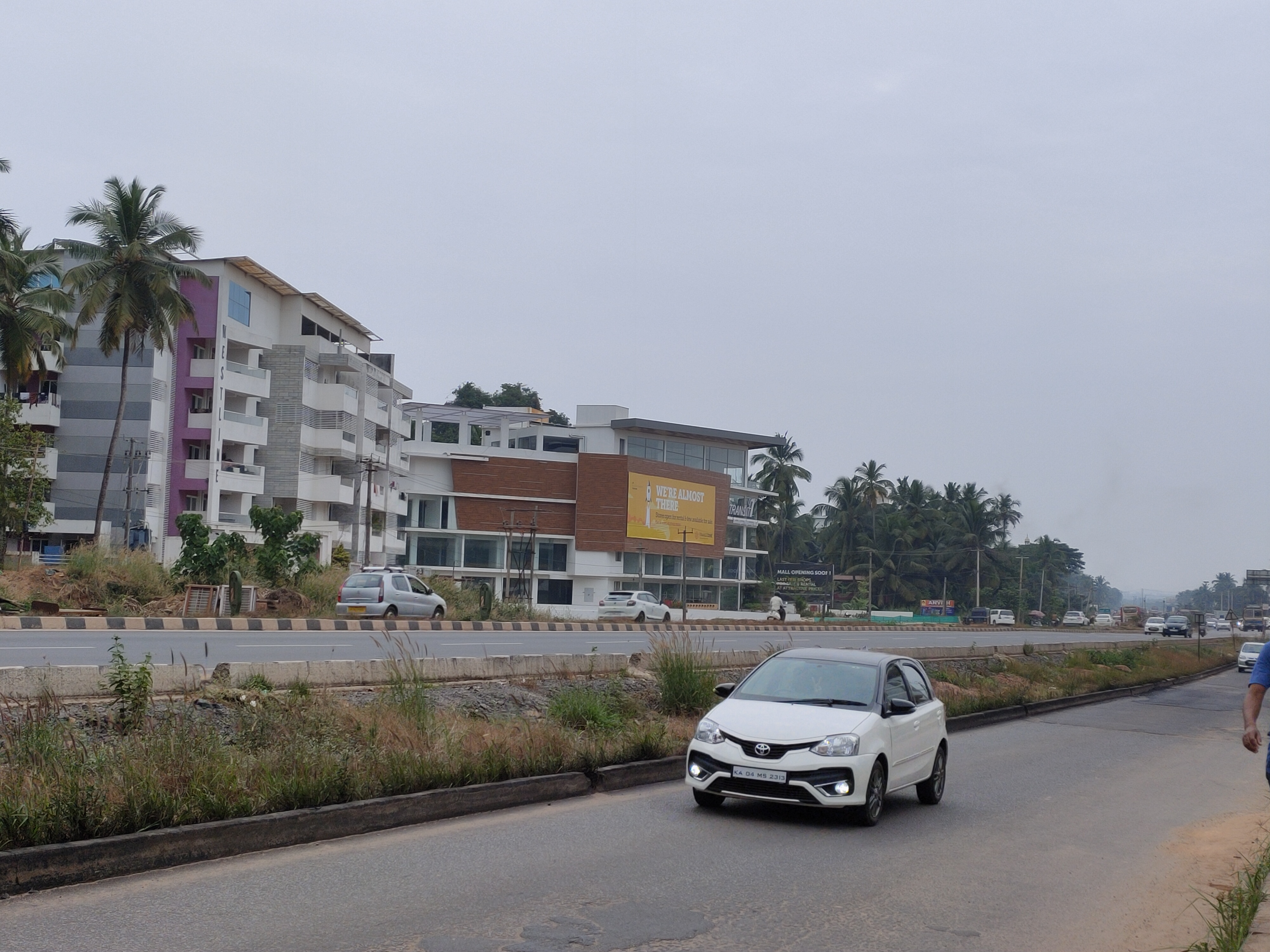 Thokottu 2